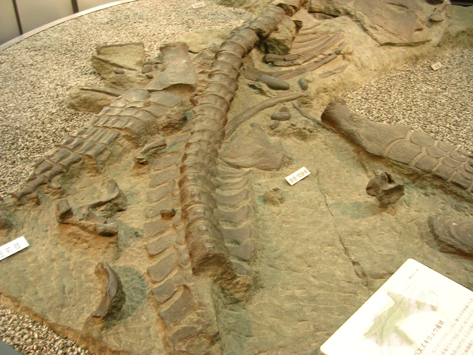 This is a replica of the rock containing fossils of Futabasaurus suzukii (a kind of Sauropterygia) exhibited at the National Science Museum of Japan.